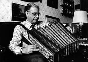 Freddy Balta, french accordionist and conductor.